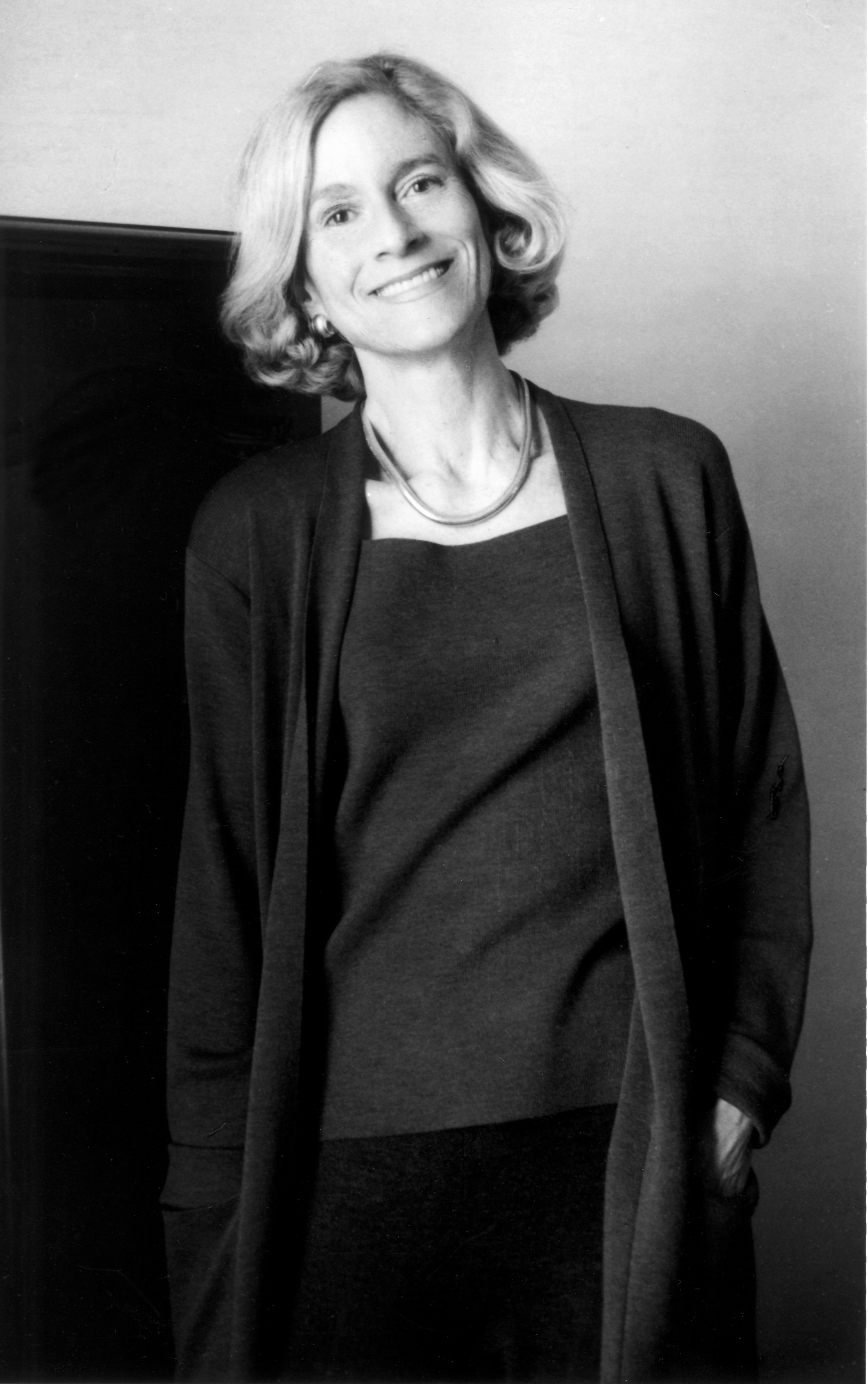 This photo is used with permission of Professor Martha Nussbaum (the subject) and the photographer, Jerry Bauer. The photographer has given a blanket license, including all internet use, for Professor Nussbaum to use the photograph for her own promotional purposes as she sees fit. This is the photo that Professor Nussbaum prefers to use for her internet presence and is being uploaded with her permission and for her own purposes. PLEASE DO NOT REPLACE THIS PHOTO. NO OTHER PHOTO HAS BEEN AUTHORIZED BY PROFESSOR NUSSBAUM FOR USE IN THIS SPACE.